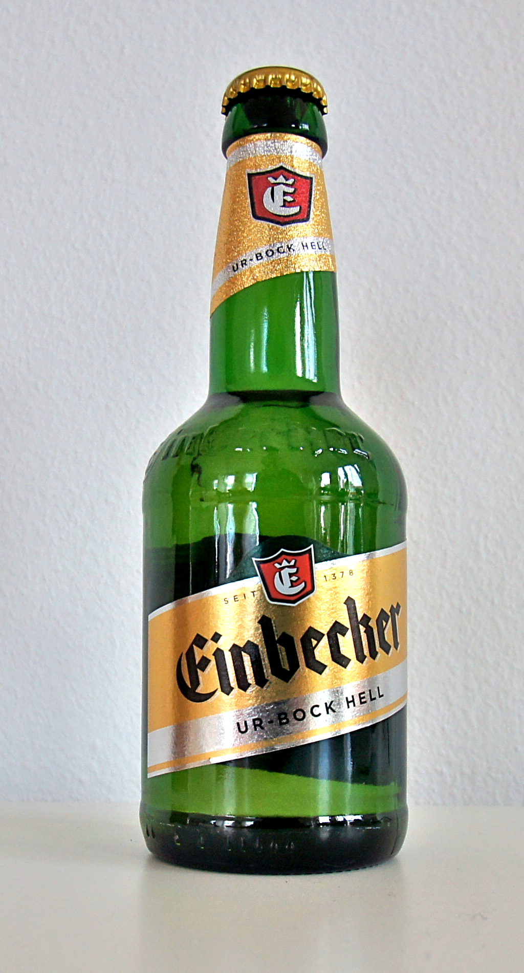 Einbeck, Germany: Bottle of the clear Bock Beer